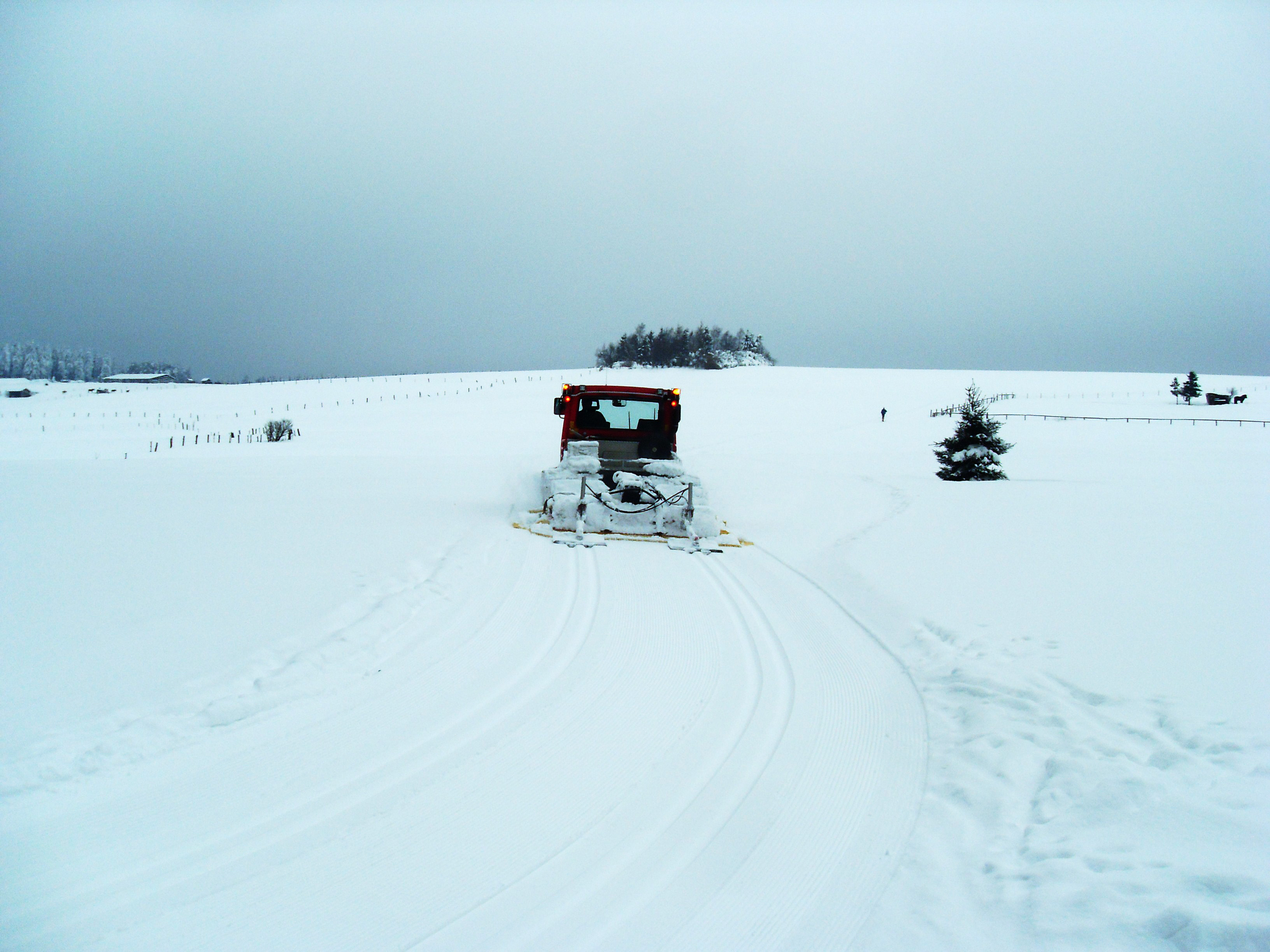 Snowcat to prepare the cross-country ski run